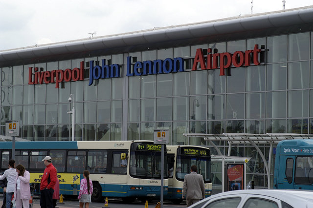 The terminal building at John Lennon Airport Liverpool